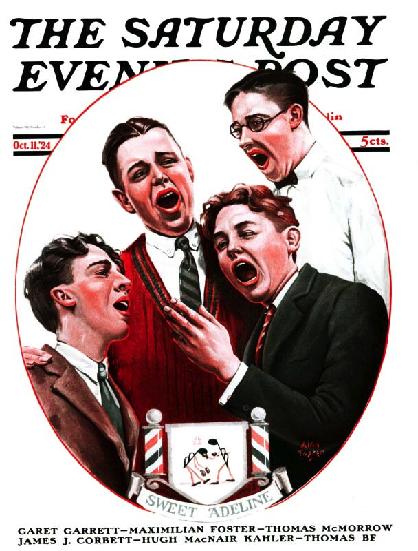 Saturday Evening Post Cover (11 Oct 1924)